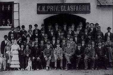 Group picture of staff of Joh. Loetz Witwe in Klostermühle in Bohemia.